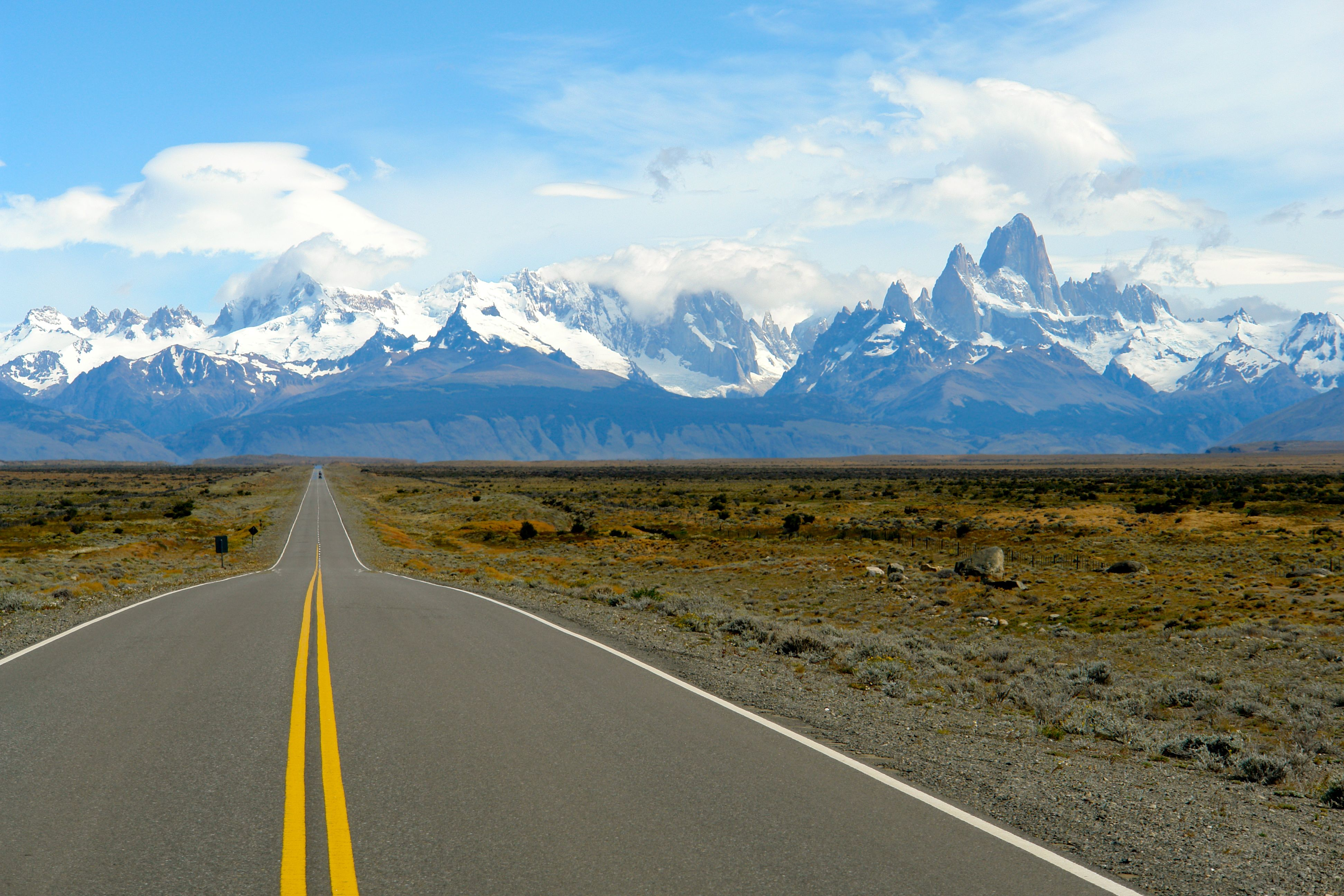 Driving Route 40 to El Chalten was pure driving pleasure.